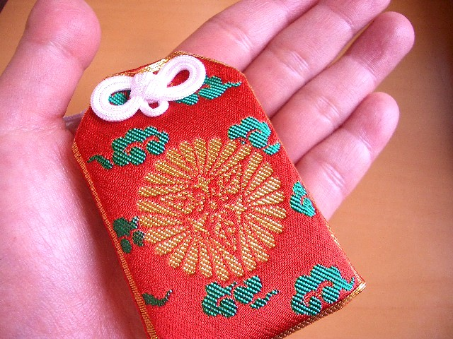 Omamori of Sanjusangen-do